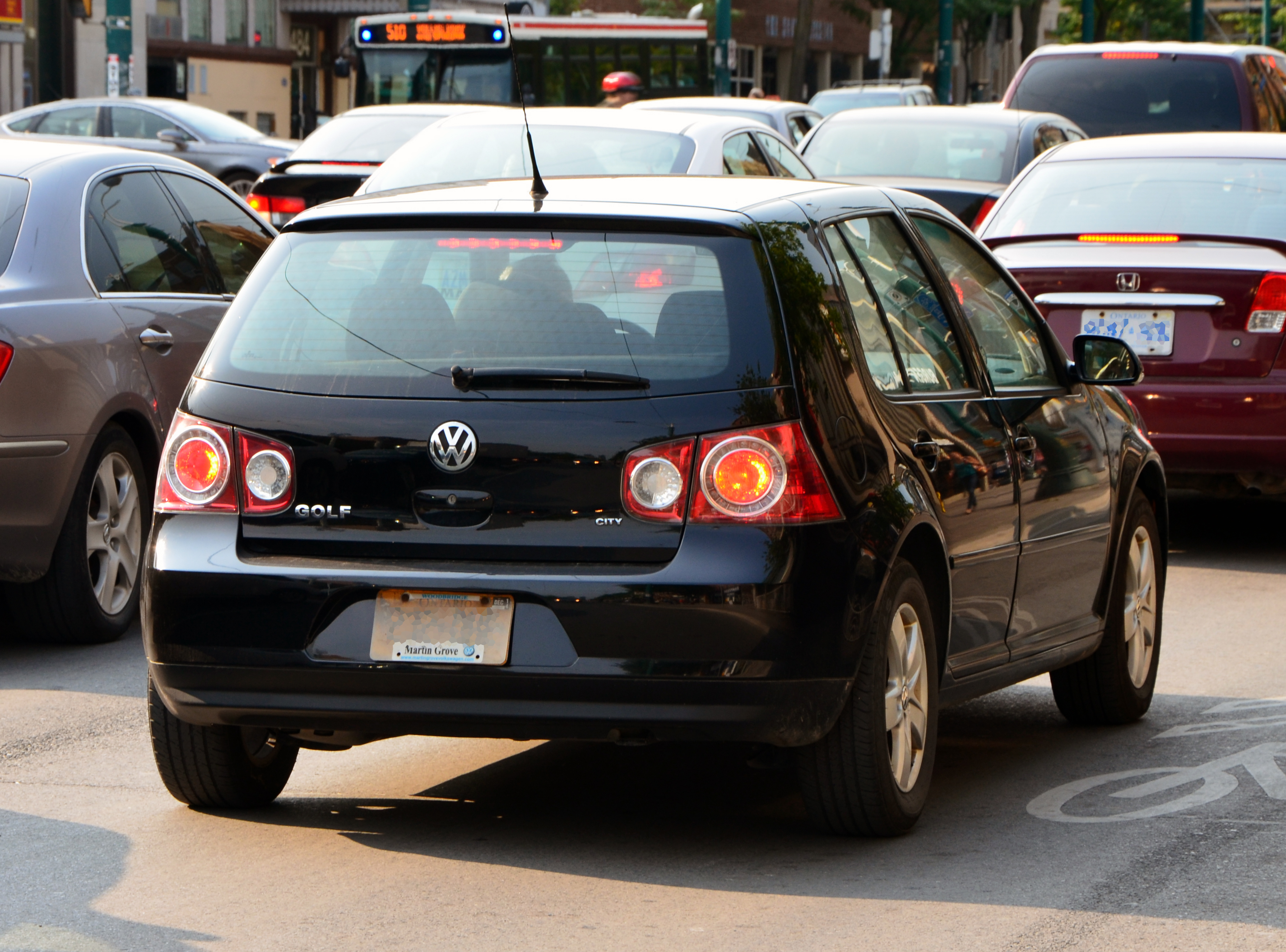 VW Golf City IV in Toronto, Canada. The Golf City is a revised version of the Golf IV designed for the canadian market.